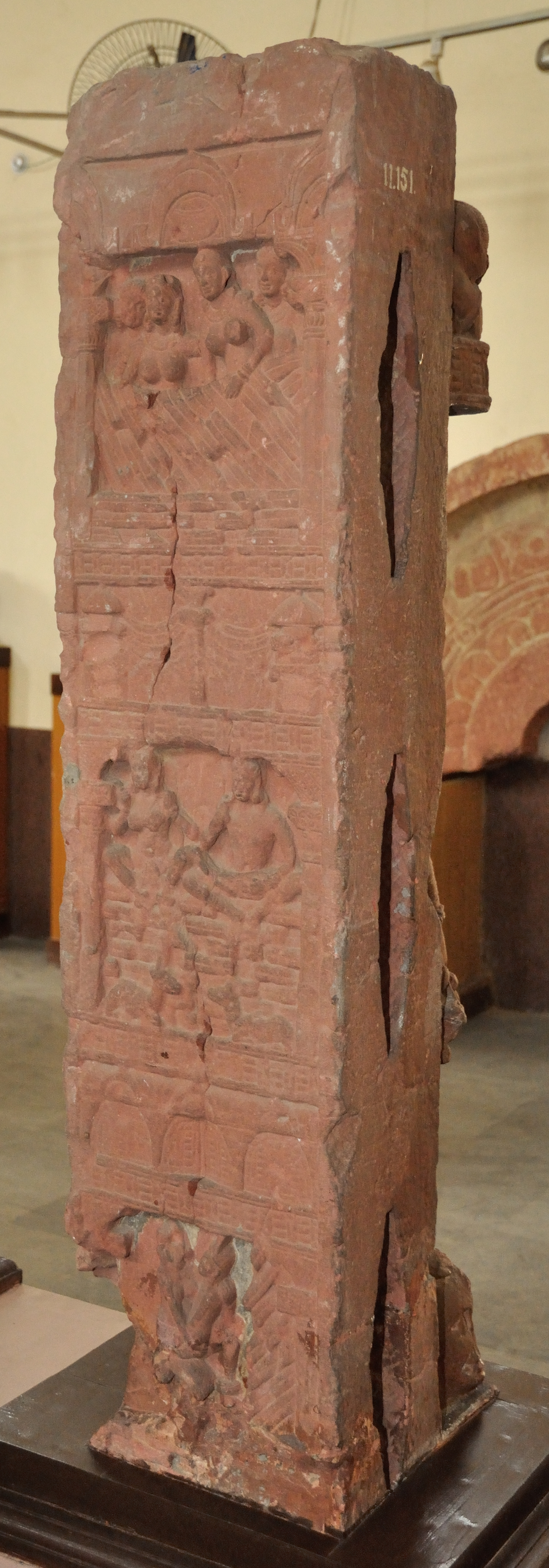 This artefact resides at the Government Museum, (hi: Rashtriya Sangrahalaya) formerly The Curzon Museum of Archaeology, Museum Road or Murari Lal Rajpal road, Dampier Nagar, Mathura, Uttar Pradesh, India. This museum is administrating by the State Government of Uttar Pradesh of India.